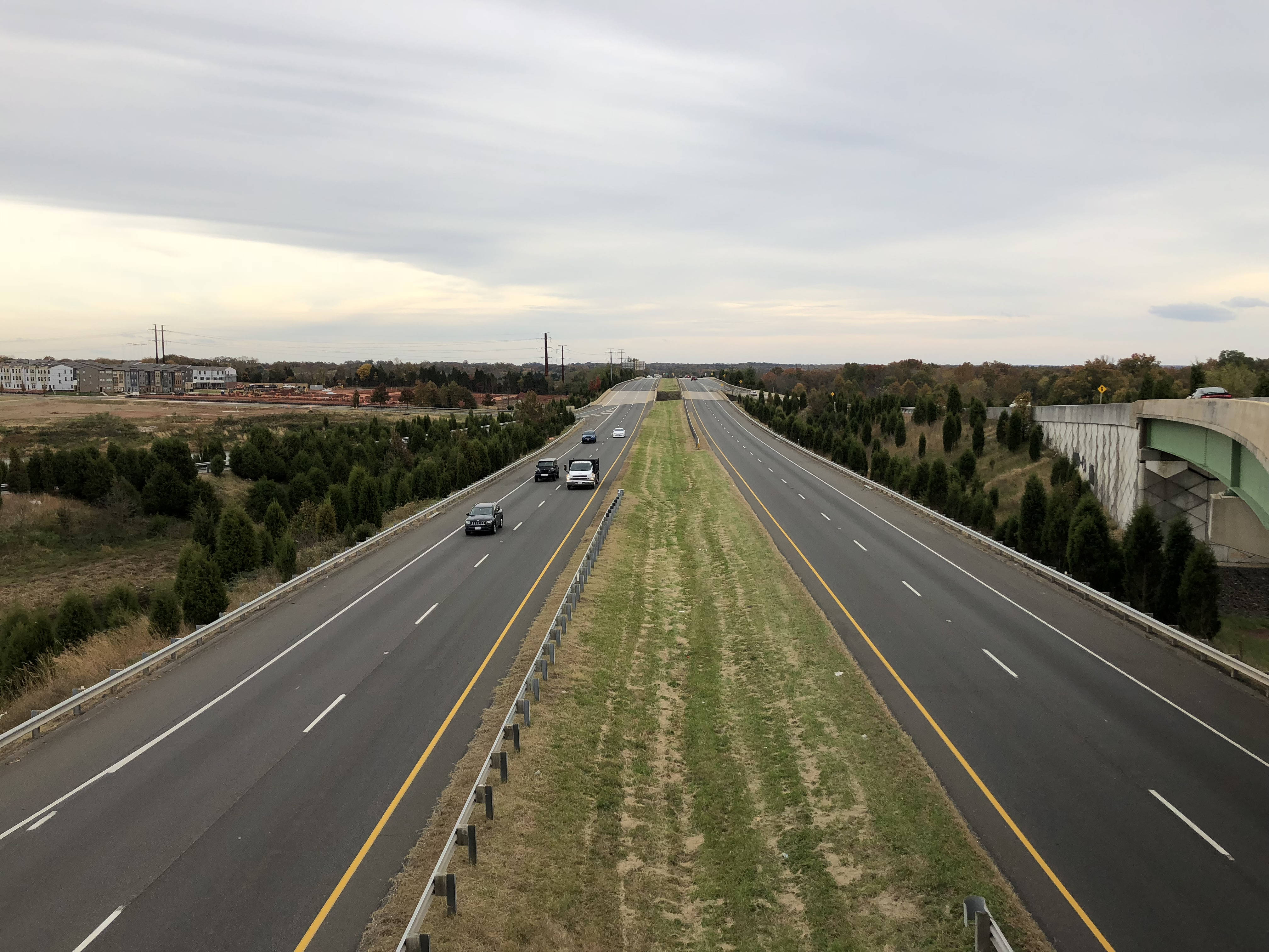 View south along Virginia State Route 234 (Prince William Parkway) from the ramp connecting southbound Virginia State Route 28 (Nokesville Road) to southbound Virginia State Route 234 in Manassas, Virginia